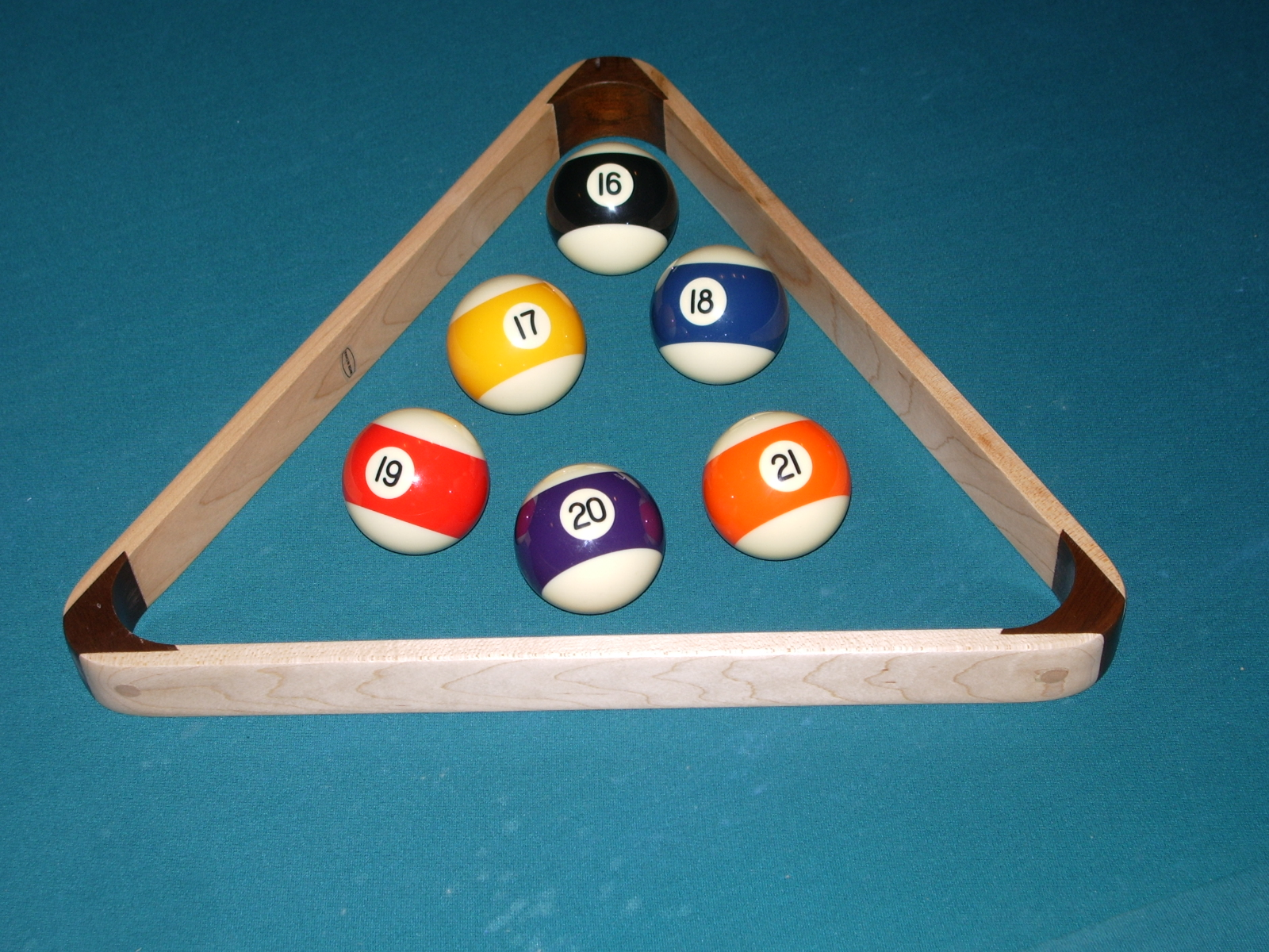 A set of Aramith-brand 16–21 pool balls for playing baseball pocket billiards. They are added to an existing set of 1-15 American-style pool balls, and Racked using the illustrated oversized triangle for 21 balls.